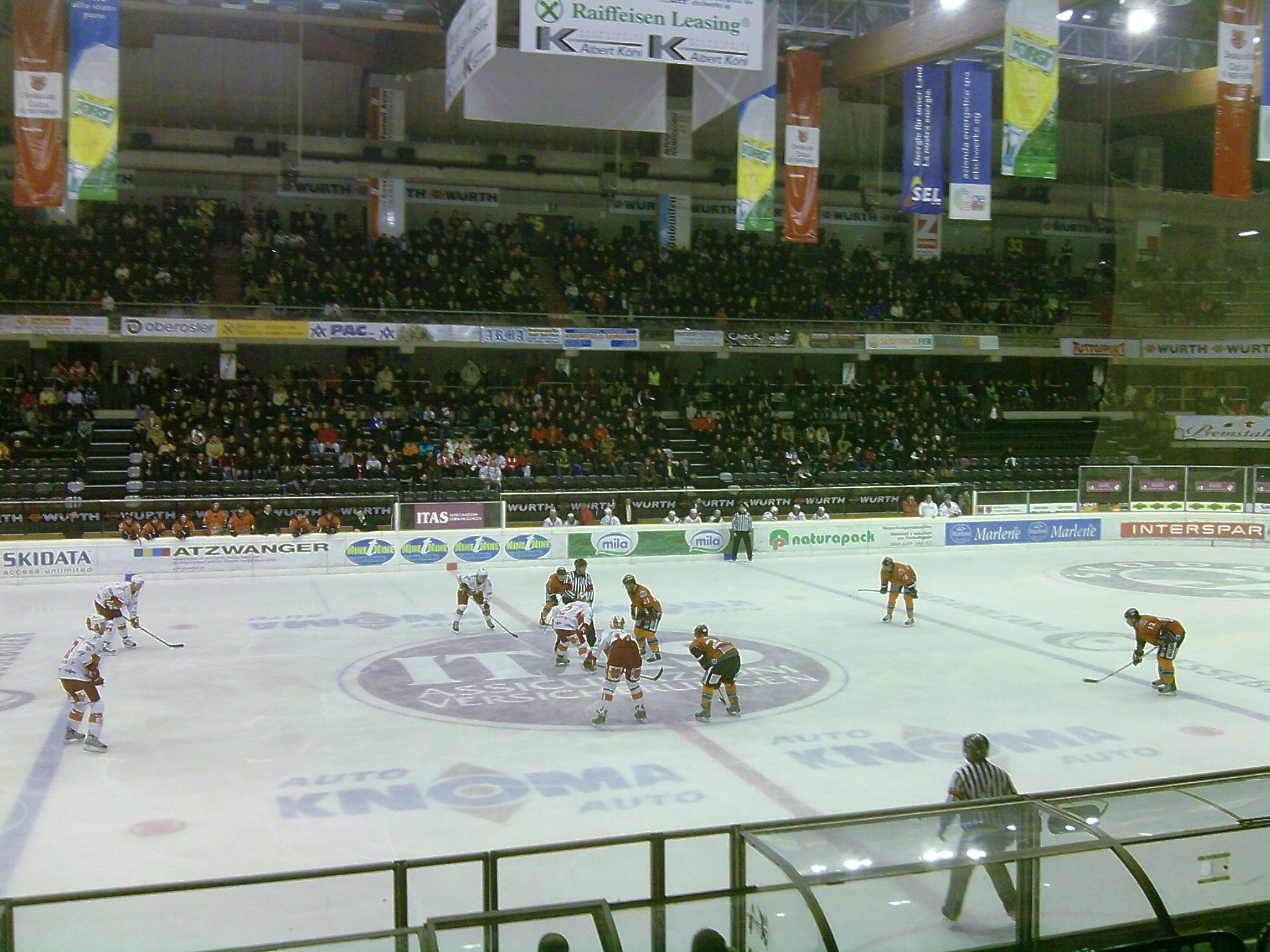 IIHF 2009-2010 Continental Cup - Face off during the game between HC Bolzano and Sheffield Steelers (Palaonda, Bolzano, 29/11/2009)